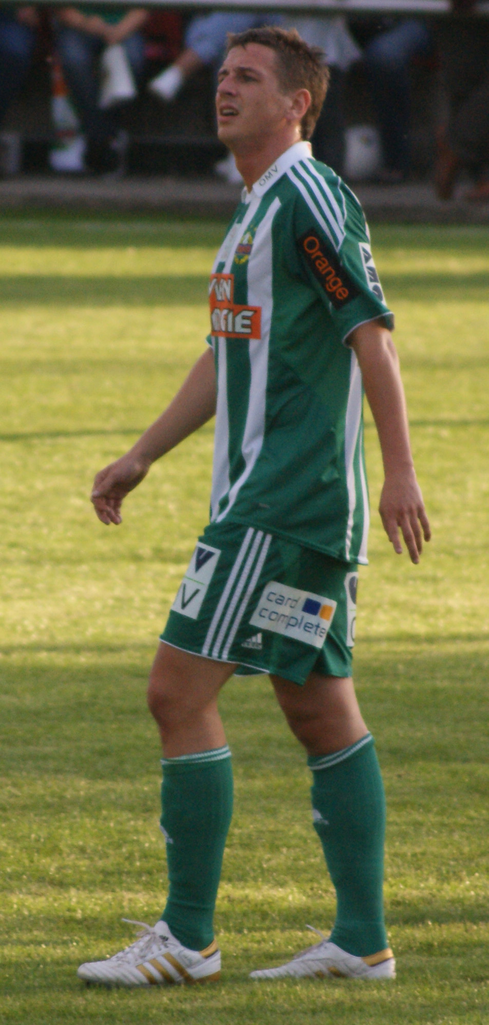 Austrian football player Rene Gartler